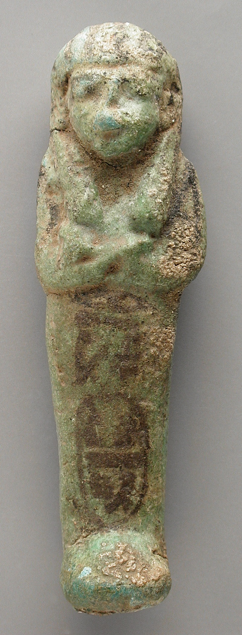 Sculpture Faience, pale green glaze, details in black Height: 5 11/16 in. (14.5 cm); Width: 1 7/8 in. (4.8 cm); Depth of foot: 15/16 in. (2.4 cm) Gift of Frank J. and Victoria K. Fertitta (M.80.198.75) Egyptian Art